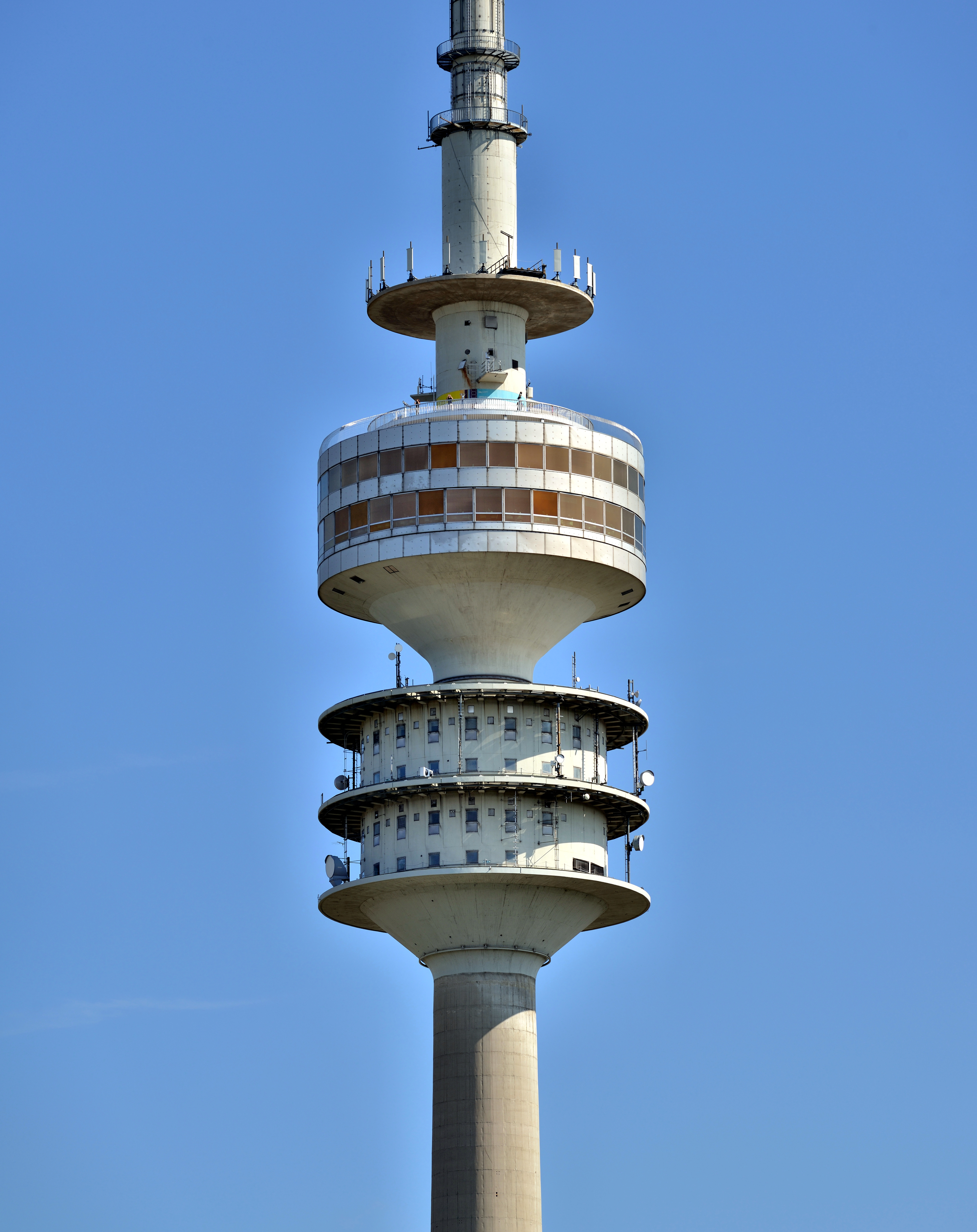 Munich: Olympic Tower